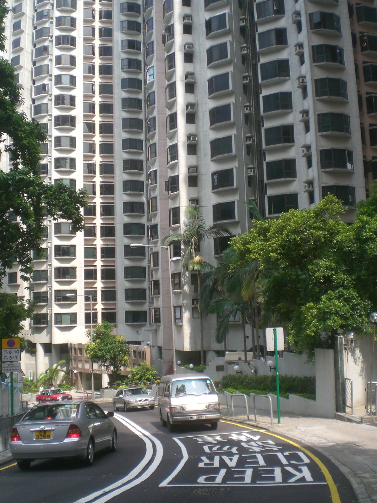 西環zh:半山區 柏道 豫苑